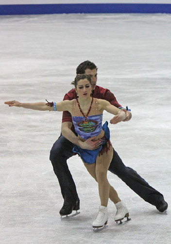 Marissa Castelli & Simon Shnapir perform a throw double loop jump during their short program at the 2009 World Junior Championships.